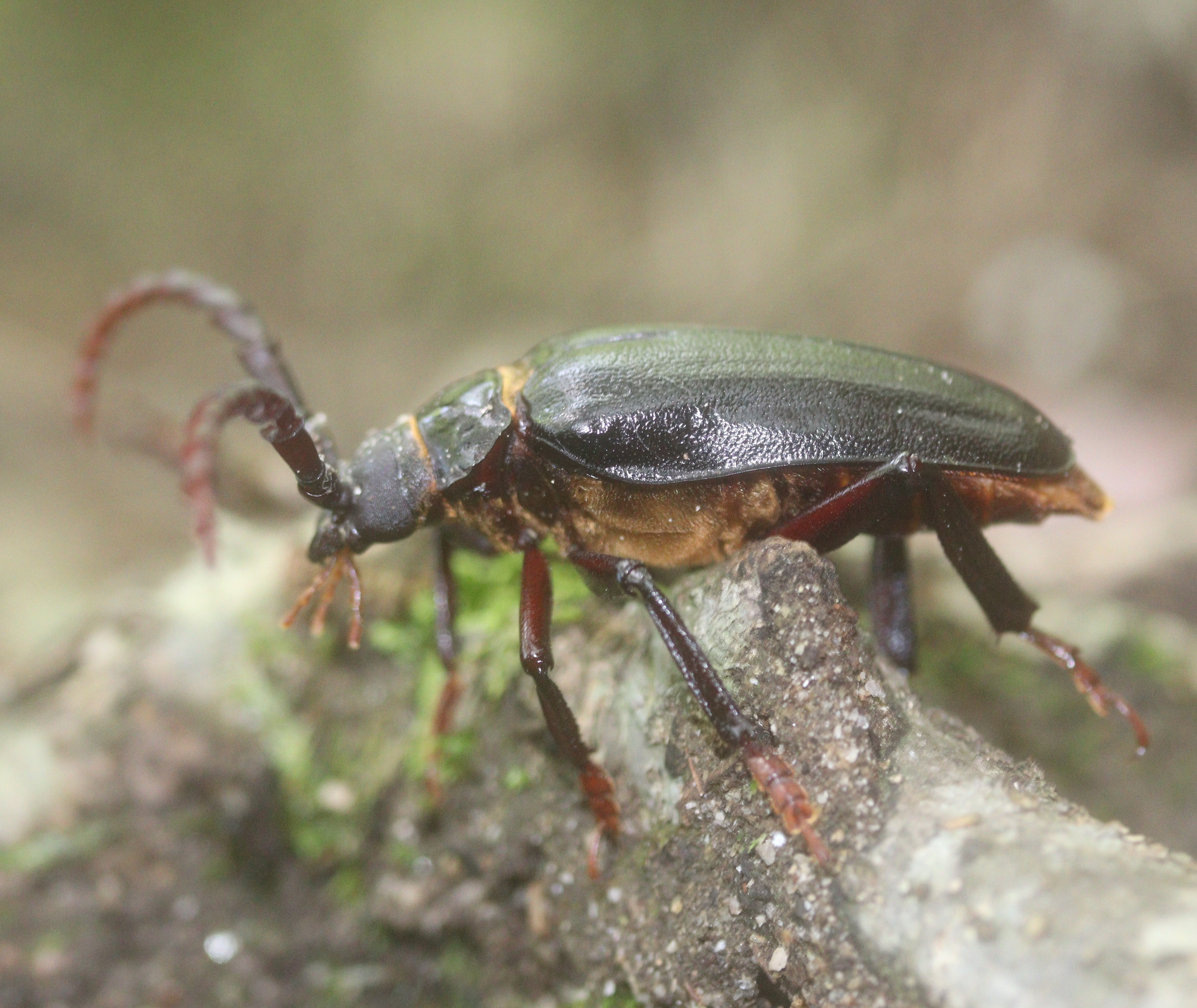 Prionus insularis in Mount Gozaisho, Komono, Mie Prefecture, Japan.